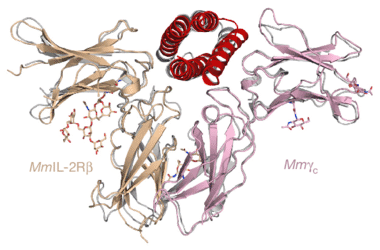 Complex proteic